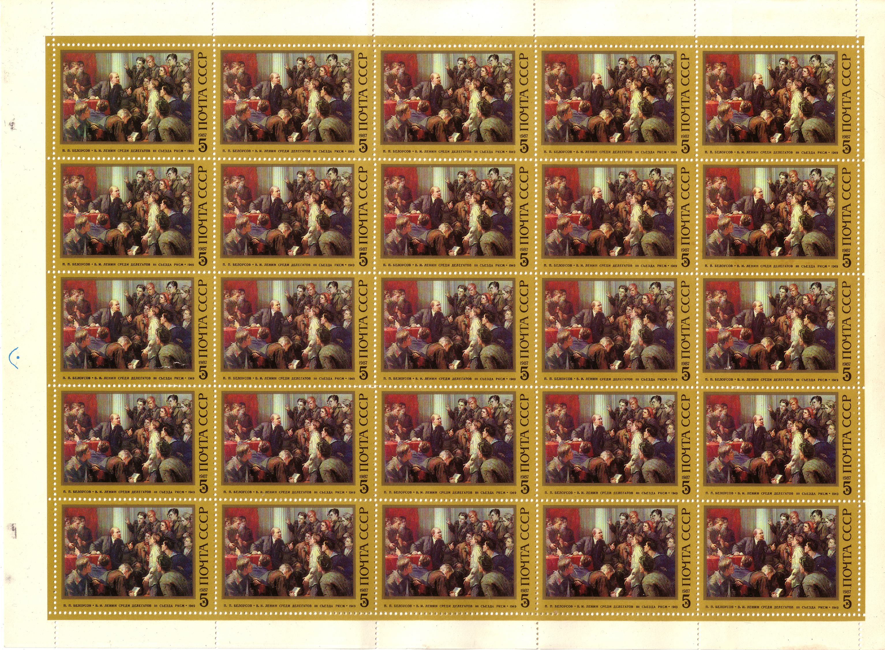 Standard sheet (5x5, A4 format) of postage stamps of the Soviet Union, Vladimir Lenin and delegates of the 3rd Congress of Russian Young Communist League (painting of P.P. Belousov, 1949), 1987, 5 kopecks